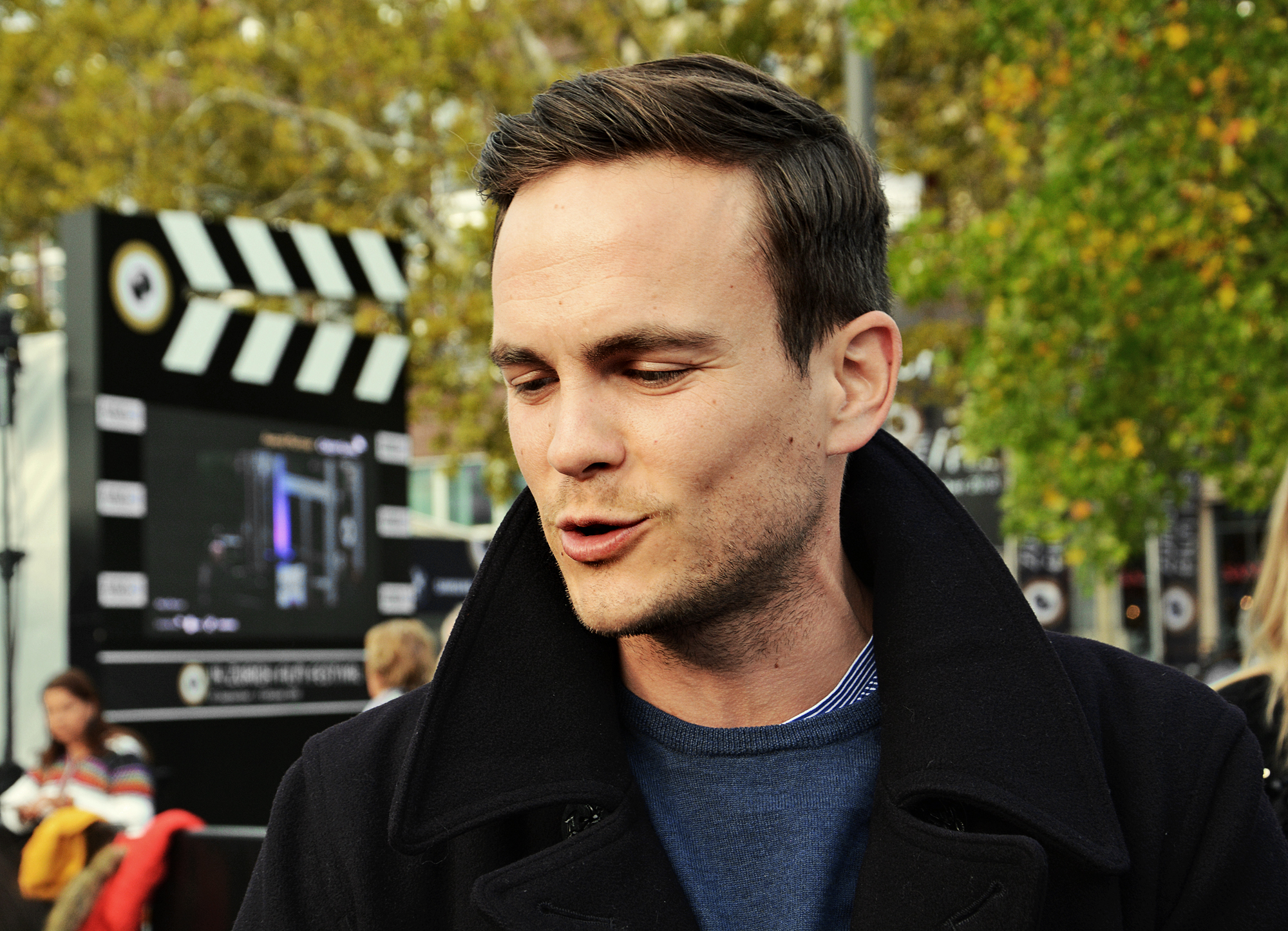 German actor Eric Klotzsch attends the "Liebesfilm" photocall during the 14th Zurich Film Festival on October 3, 2018 in Switzerland.